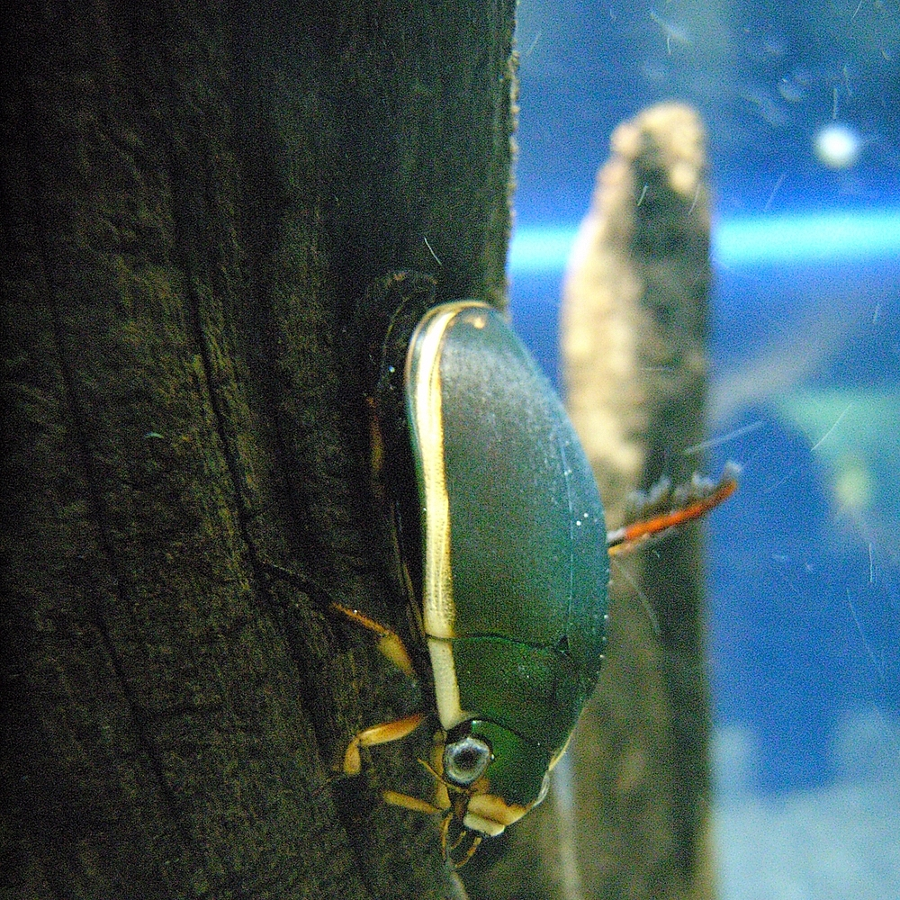 ゲンゴロウ（英名：Predaceous diving beetle 学名：Cybister japonicus）